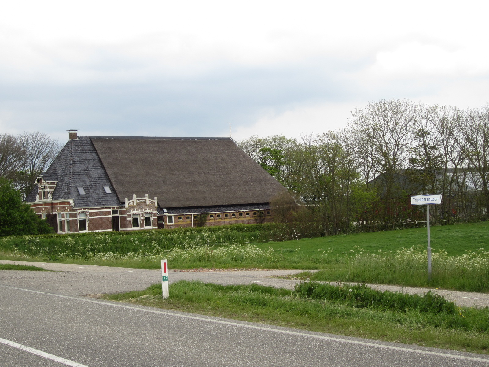 Hamlet Drieboerehuizen, near village Holwerd, county Friesland, The Netherlands.